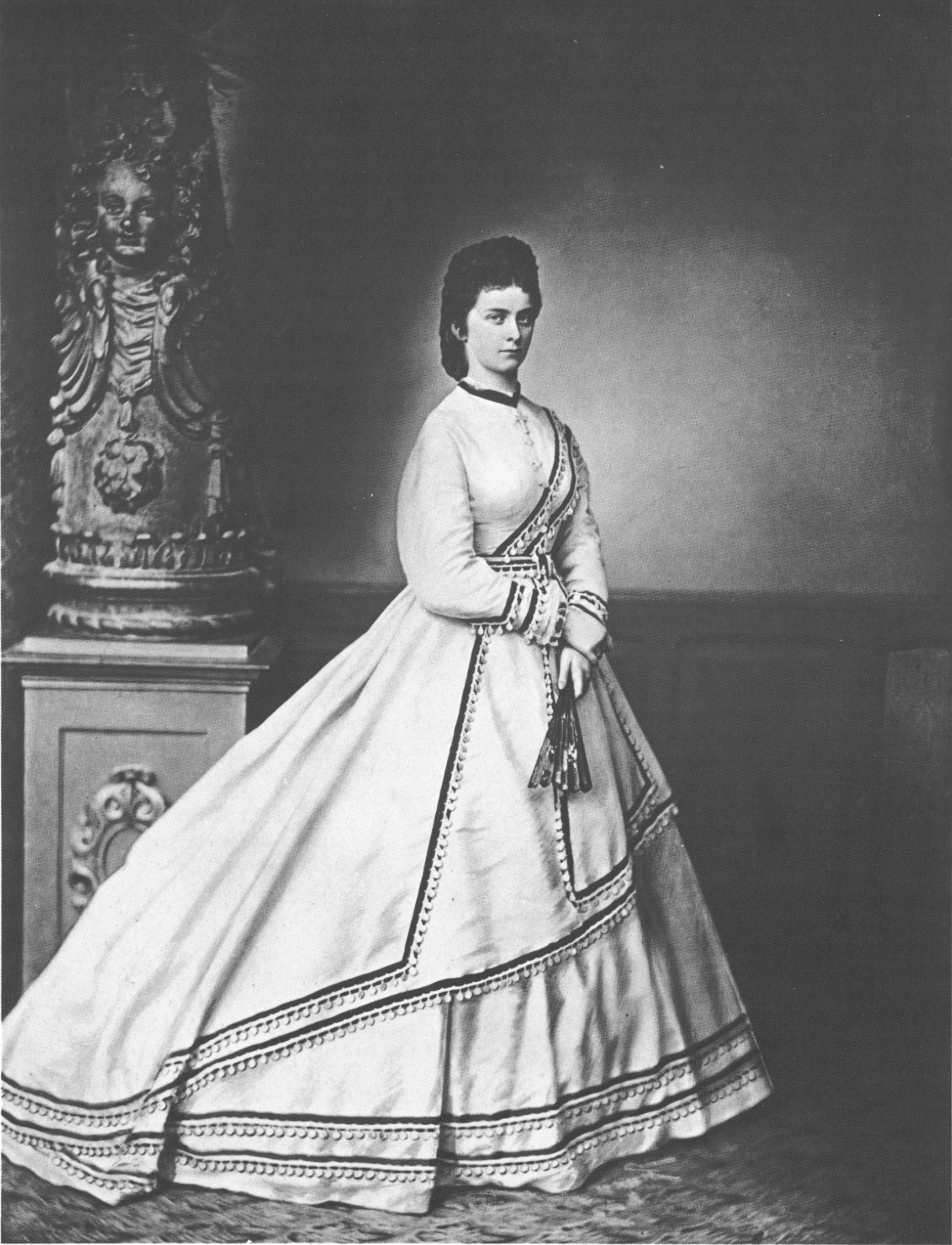 Duchess Sophie Charlotte in Bavaria (1847-1897)